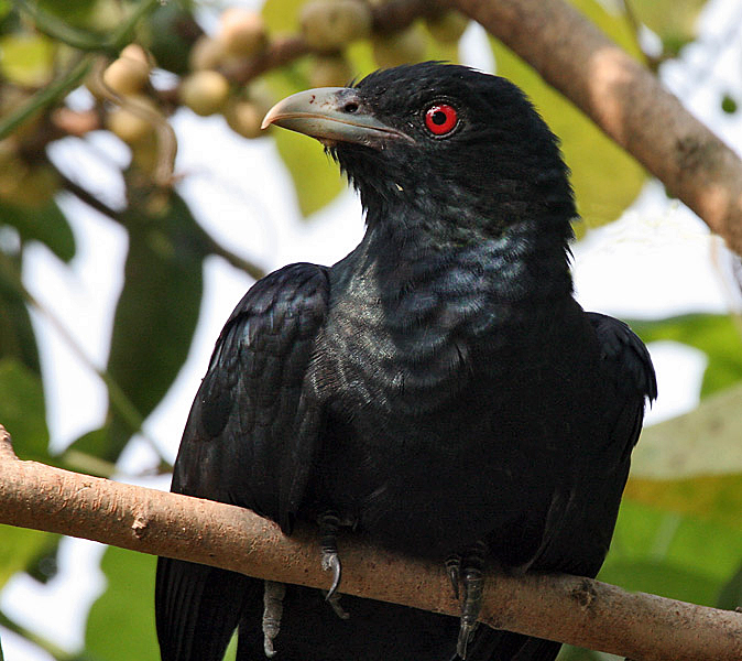 Asian Koel Eudynamys scolopaceus in Kolkata, West Bengal, India.